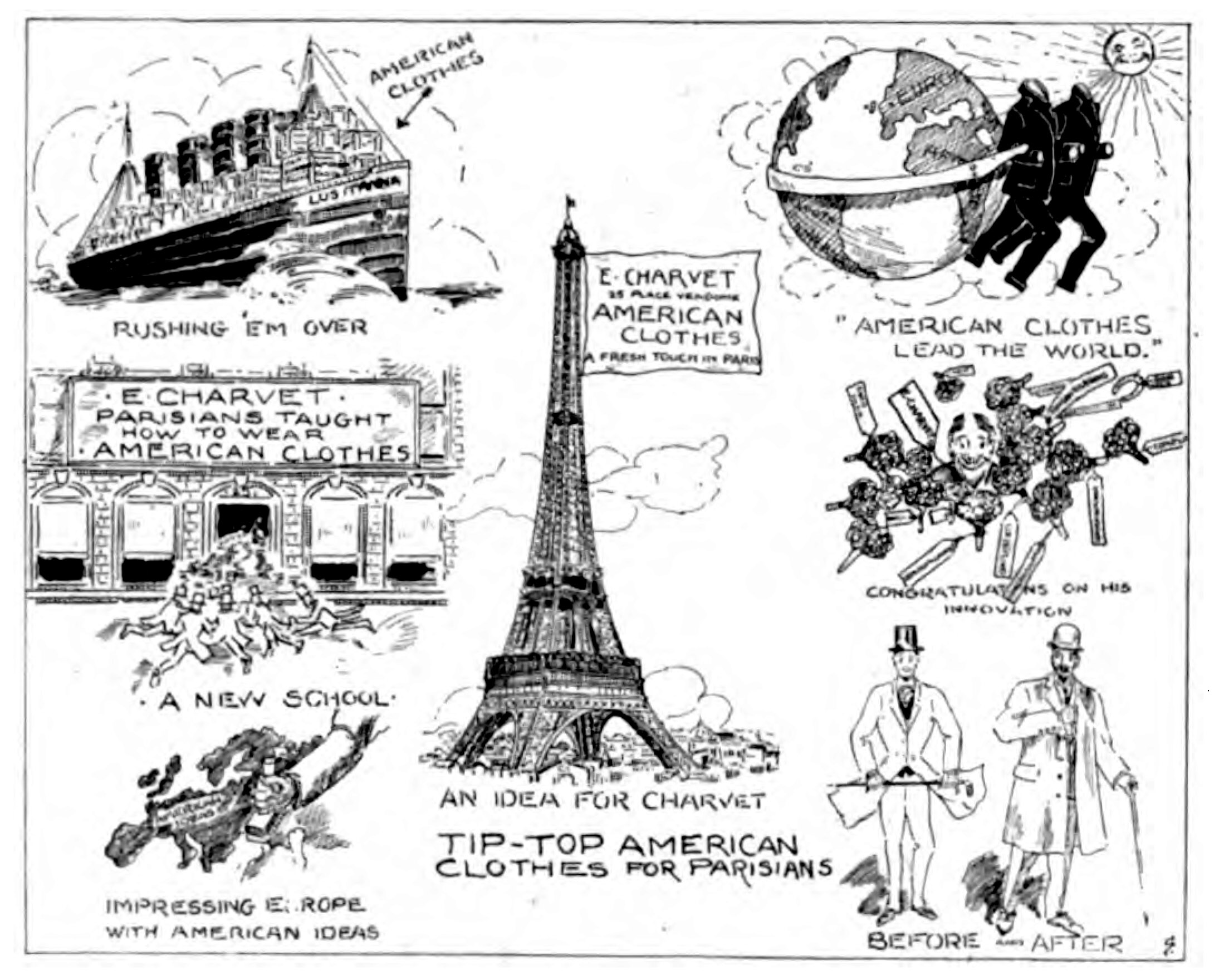 Cartoon in Men's Wear magazine about the announced importation by E. Charvet in Paris of clothing produced by Hirsh, Wickshire Company in Chicago.